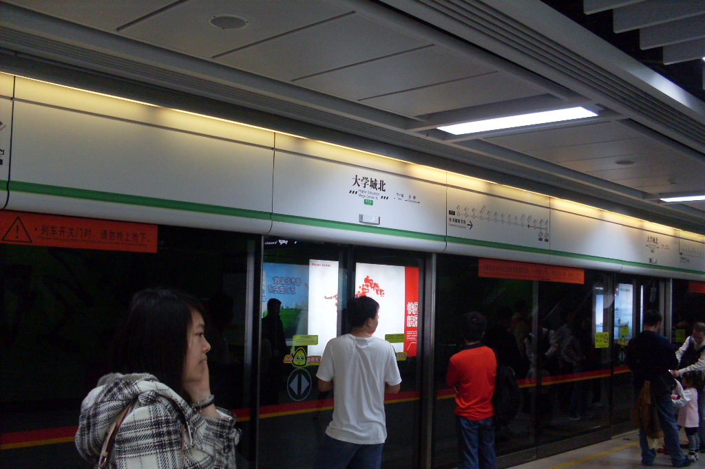 Higher Education Mega Center North Station, Line 4, Guangzhou Metro